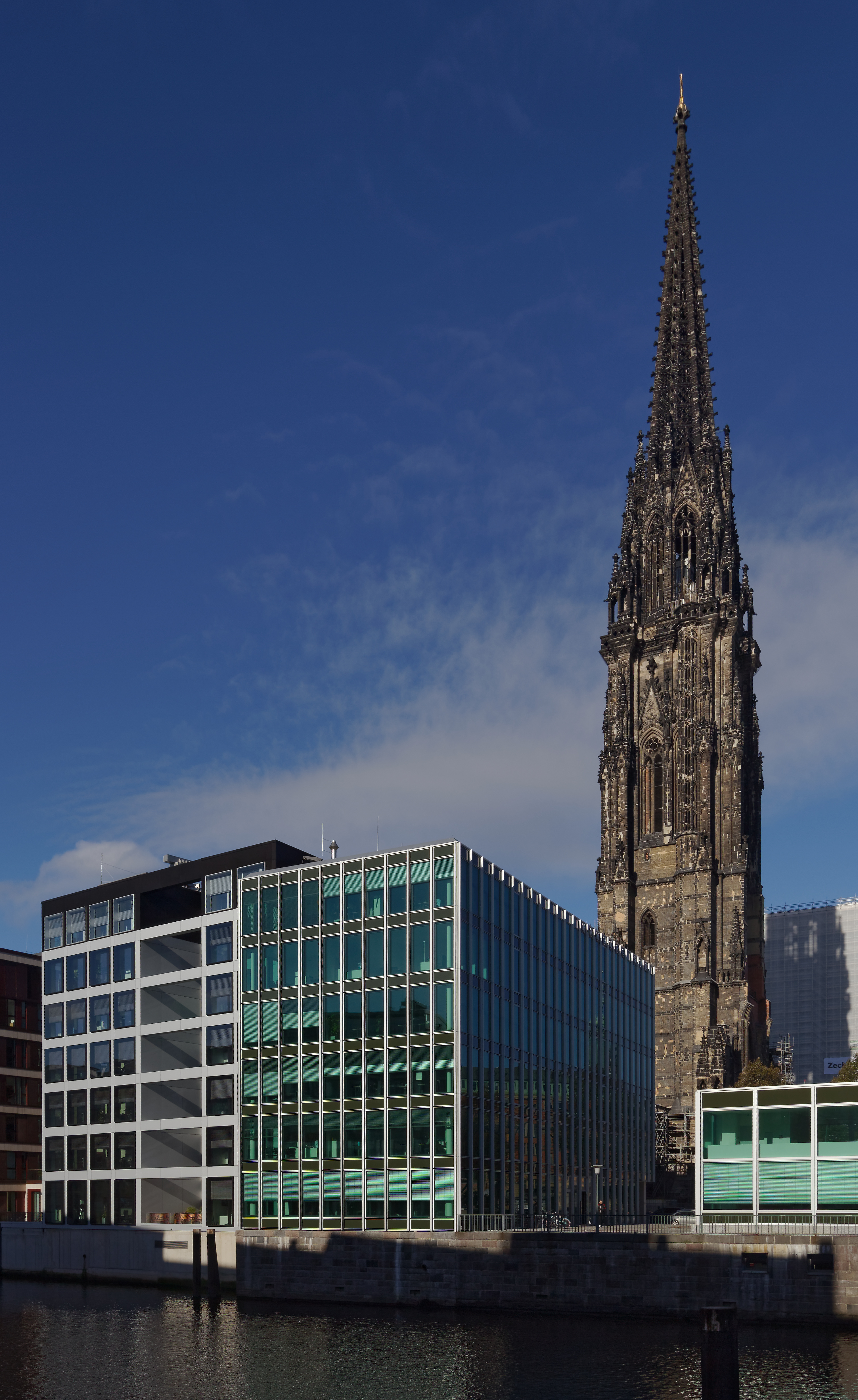 Office building of the "Hamburg Süd" shipping line in Hamburg-Altstadt, extension building and small building